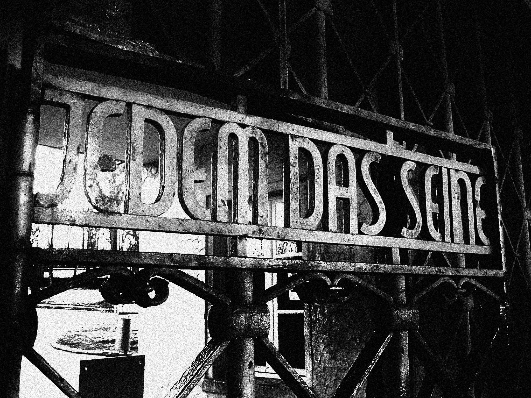 Taken at Buchenwald concentration camp - January 2007 EmileVictor 02:53, 29 April 2007 (UTC)